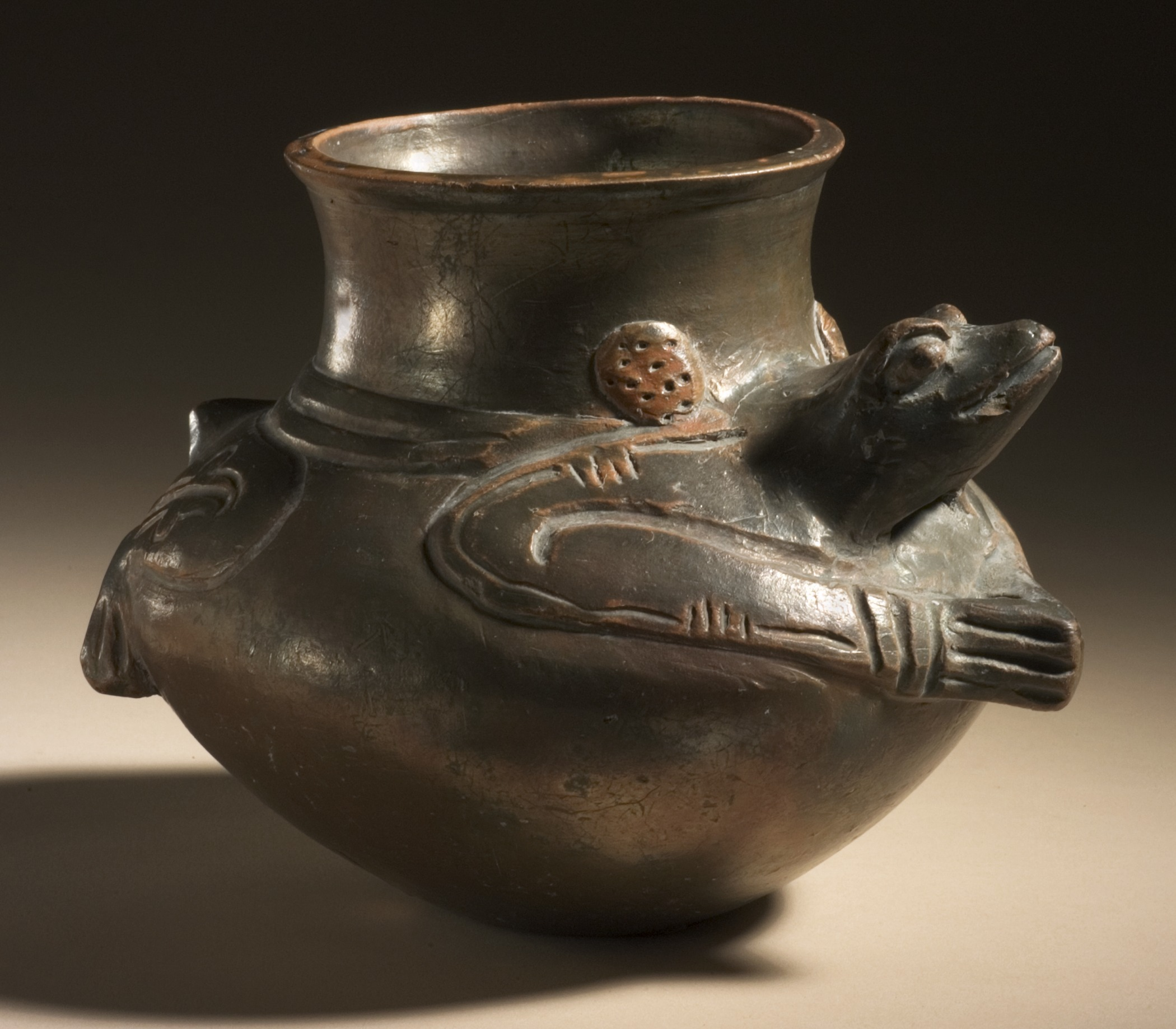 Guatemala, Coastal Piedmont, Maya, 900-1200 Furnishings; Serviceware Fine Orange ceramic with plumbate gaze Height: 5 in. (12.7 cm) Gift of Constance McCormick Fearing (AC1993.217.17) Art of the Ancient Americas